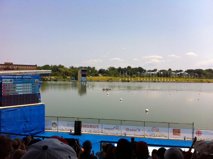 Rowing at the 2015 Pan American Games